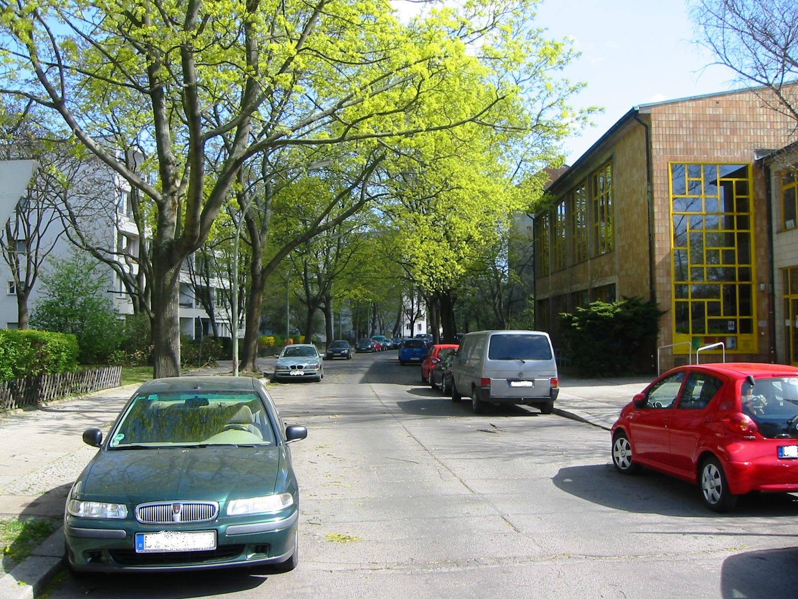 Badener-Ring in Berlin-Tempelhof (Germany)